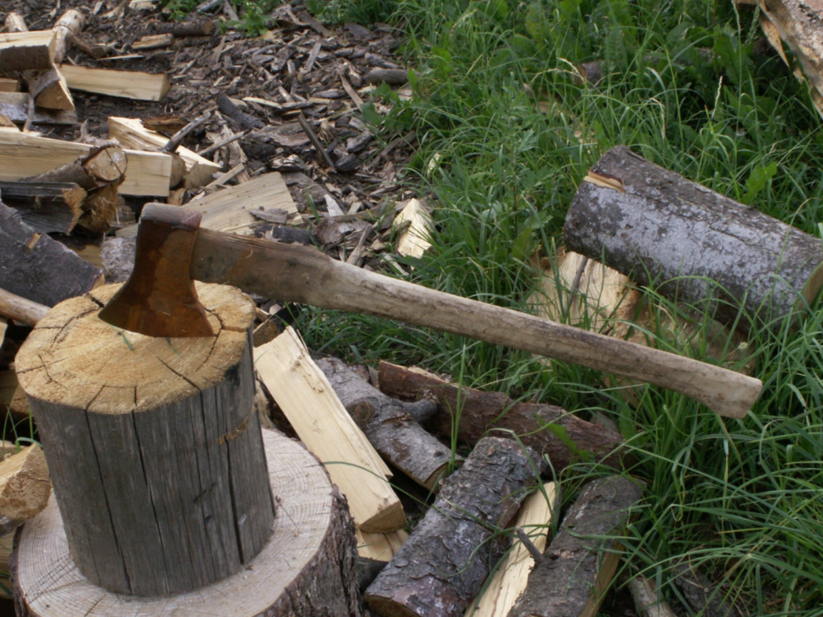 Axe for splitting timber; ash haft